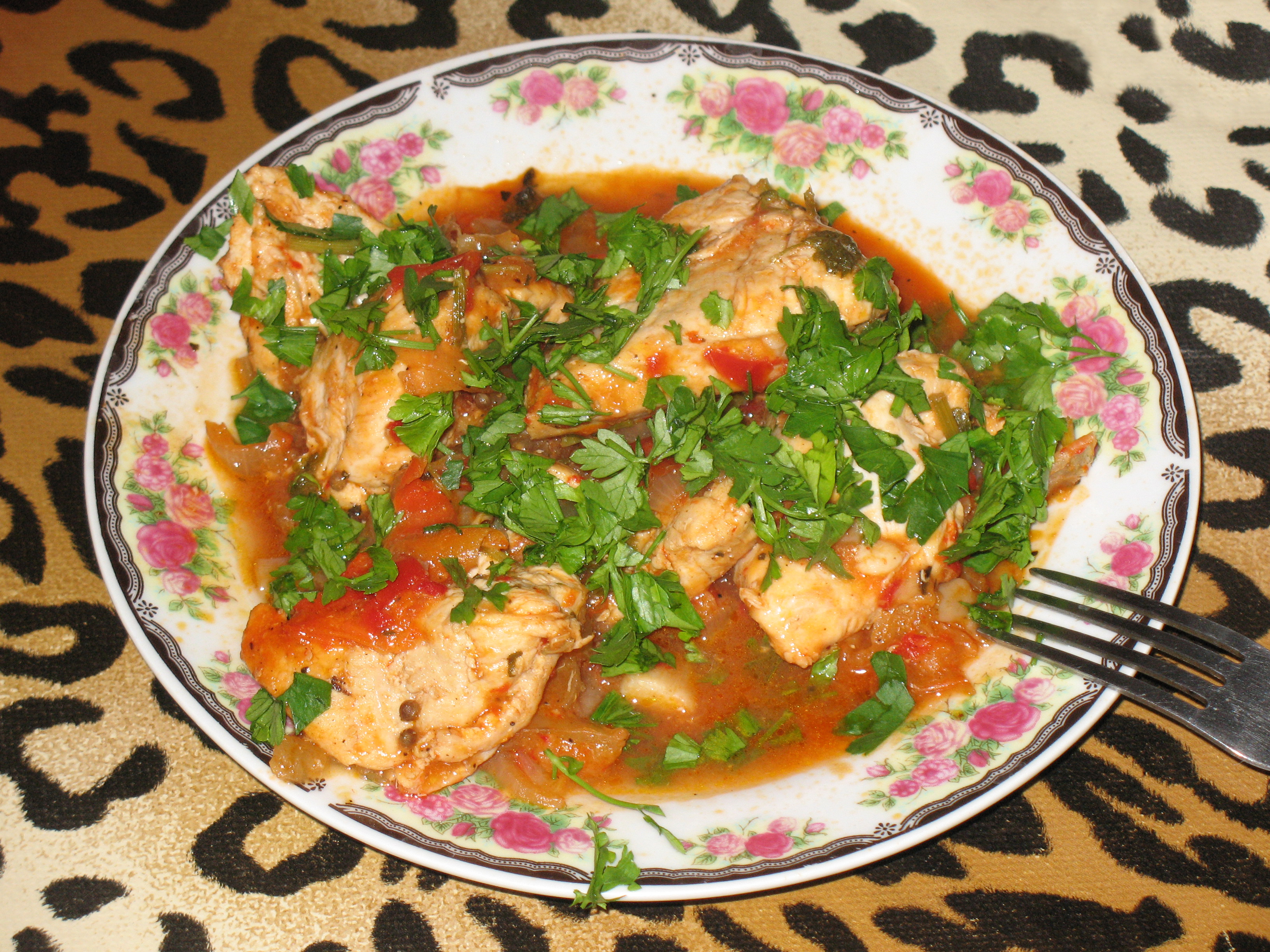 Georgian cuisine: chahohbili. Kharkov.